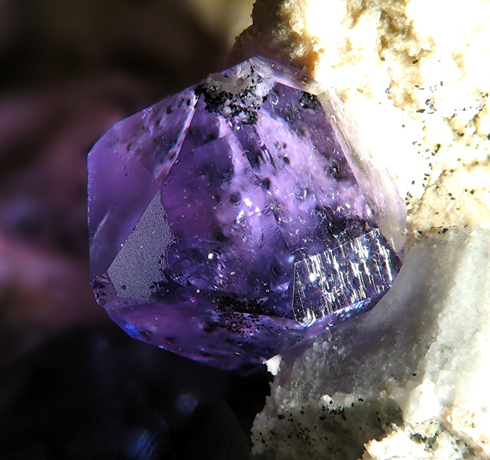 Strengite Locality: Hagendorf South Pegmatite (Cornelia Mine; Hagendorf South Open Cut), Waidhaus, Vohenstrauß, Oberpfälzer Wald, Upper Palatinate, Bavaria, Germany (Locality at ) Picture width 3 mm. Collection and photo Christian Rewitzer This Photo was Photo of the Day - 6th Feb 2008